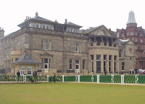 Royal & Ancient Clubhouse